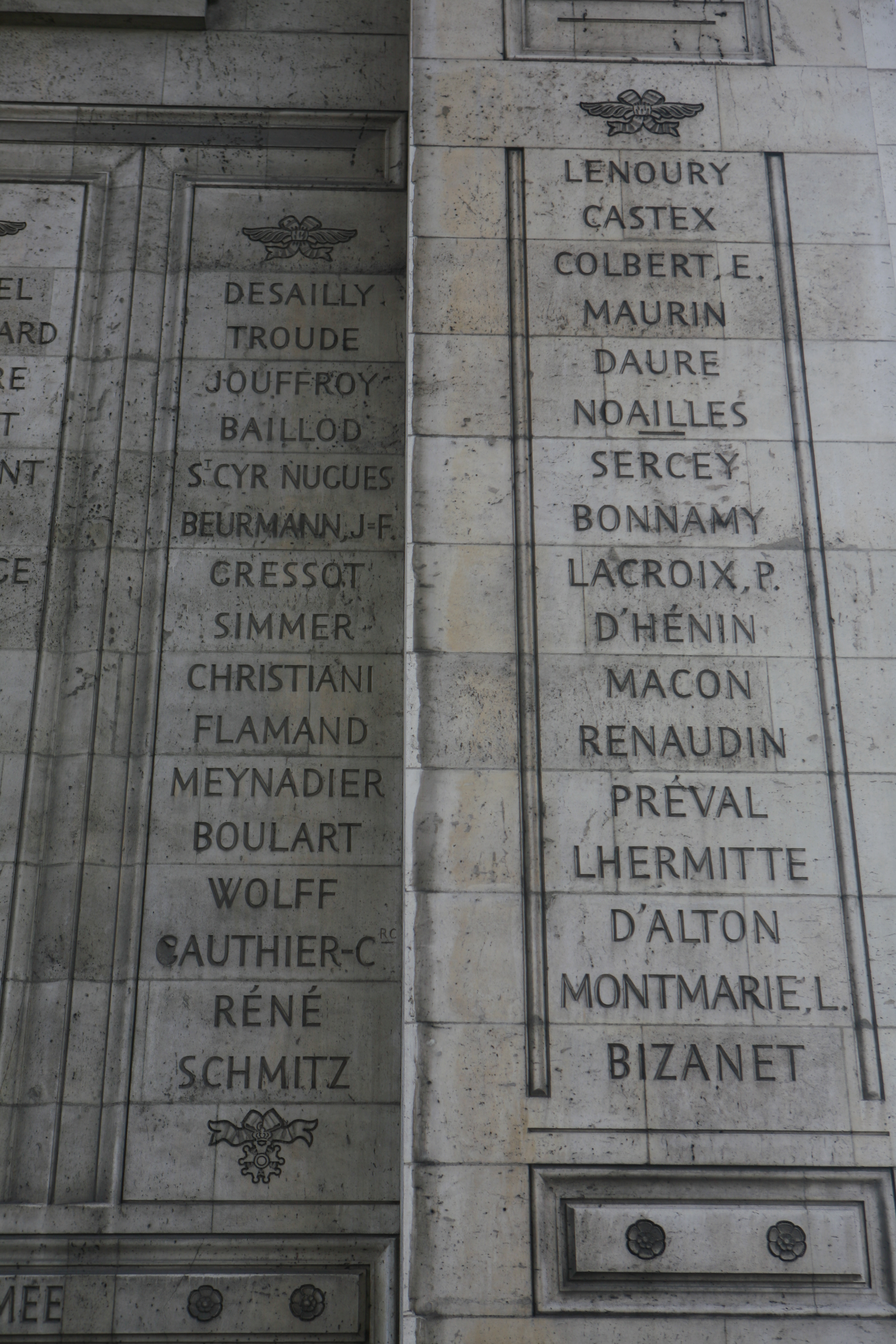 Inscriptions of the Arc de Triomphe. Western pillar, Columns 39, 40.